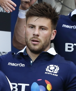 2017.06.17.14.59.18-Scots running on-0002 The 2017 mid-year rugby union international, 17 June 2017, Australia vs Scotland at Allianz Stadium, Sydney